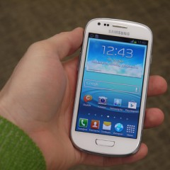 Samsung Galaxy S III mini